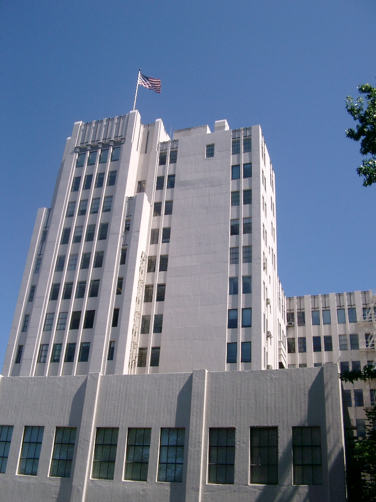 The Terminal Sales Building in Portland, Oregon. Taken by myself.